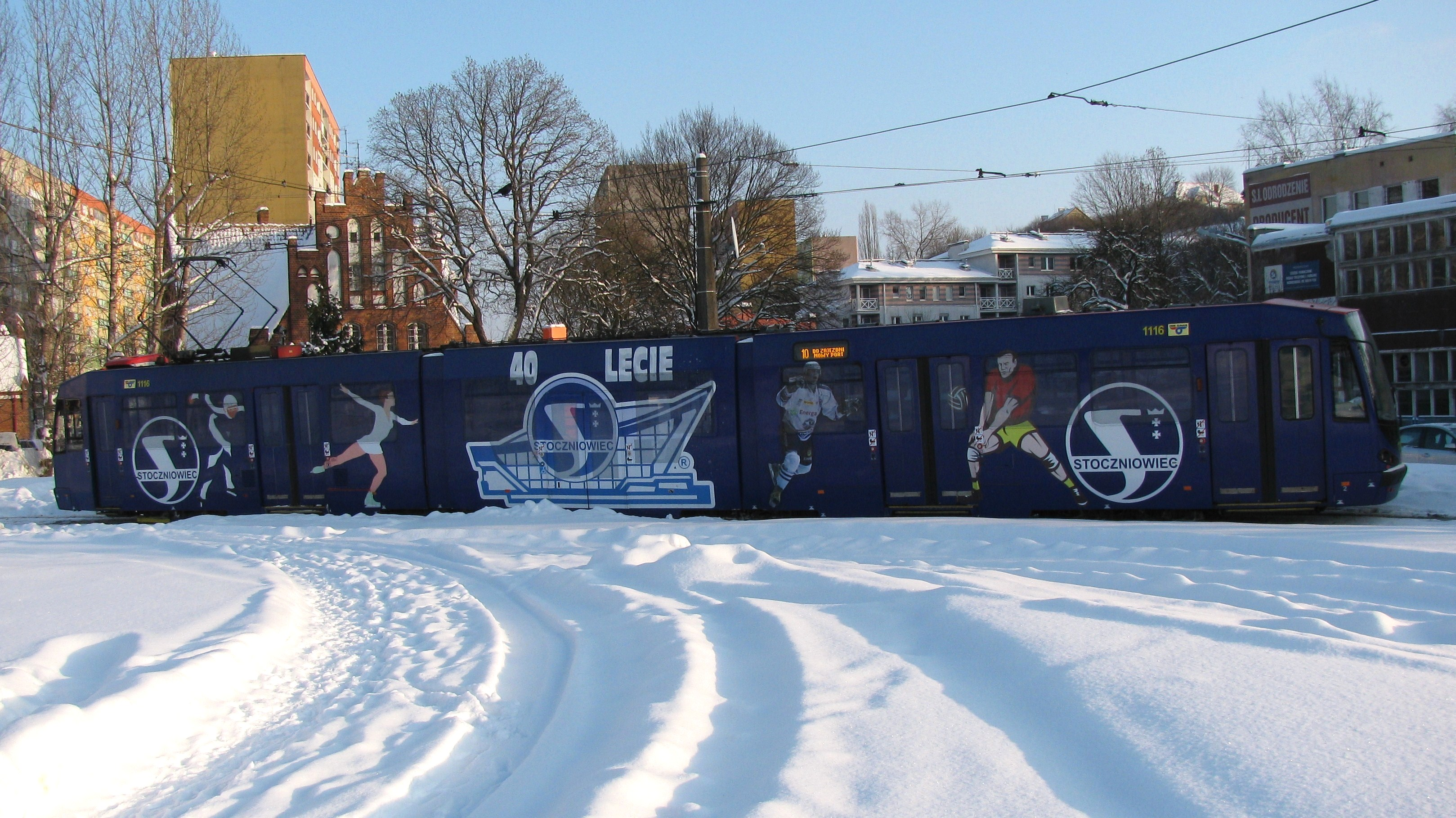 A Moderus Beta MF 01 tram in Gdańsk, Stoczniowiec Gdańsk winter sports club.